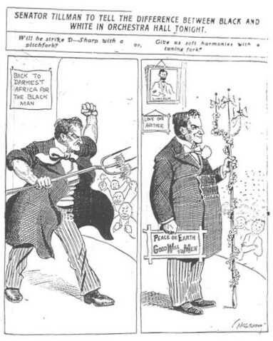 Chicago Tribune editorial cartoon 27 Nov 1906 about Senator Ben Tillman Other information none